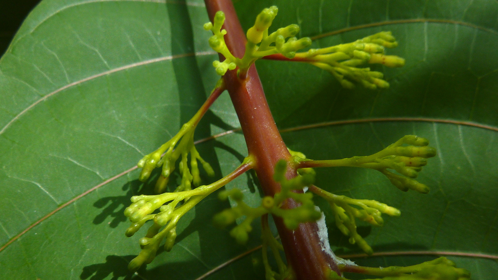 Palicourea blanchetiana Schltdl., Rubiaceae, Atlantic forest, northeastern Bahia, Brazil Shrub to 4 m. Popovkin & Mendes 712, 736 (HUEFS).